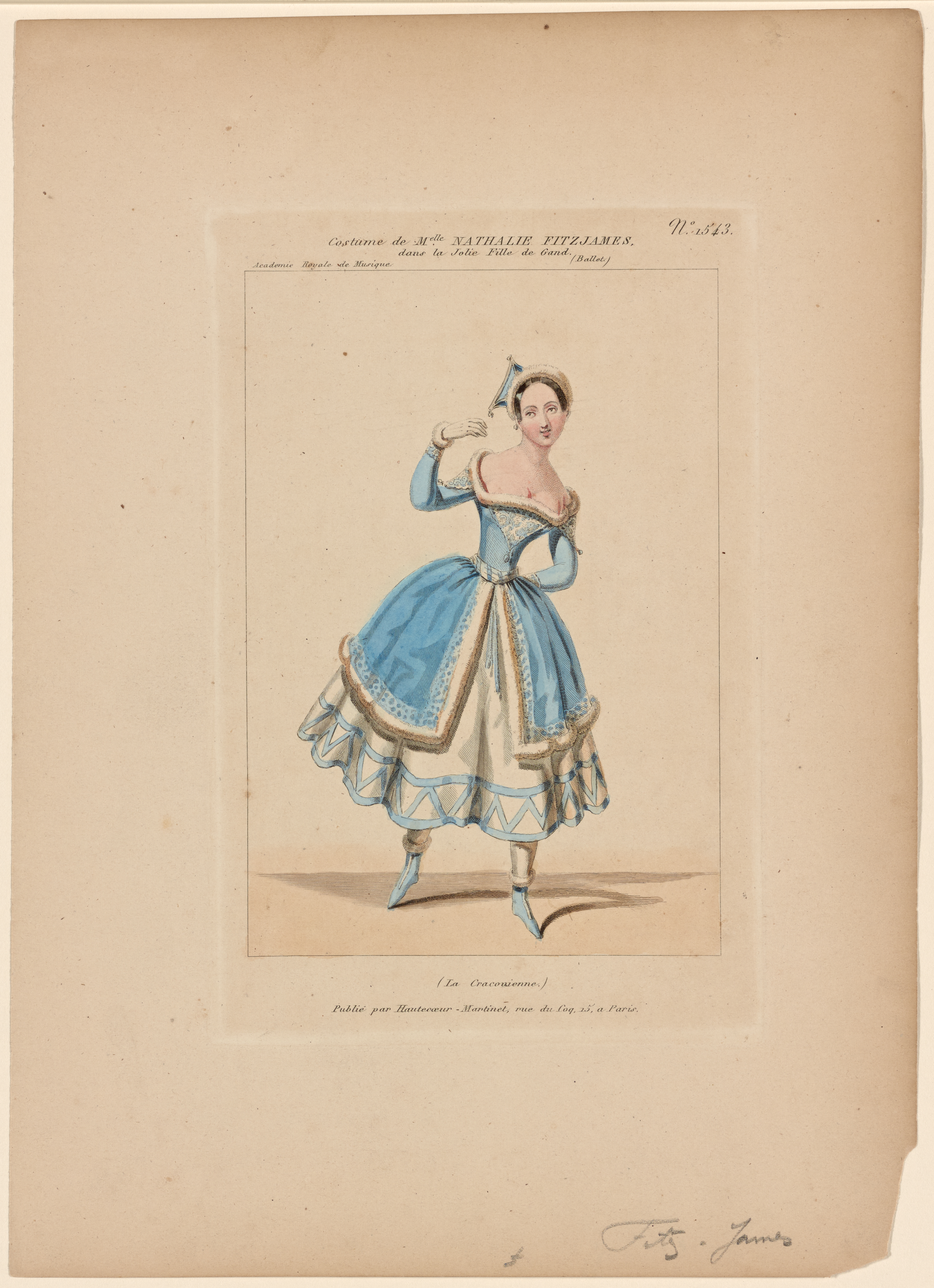 To front, stepping on to left foot, right arm curved at shoulder level, left hand behind back; wearing fur-trimmed costume.